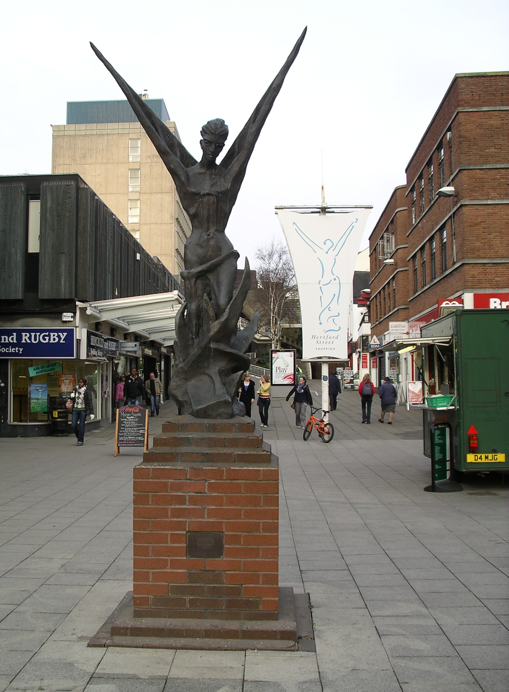 The Phoenix, a bronze statue by George Wagstaff, situated in Hartford Street, Coventry, West Midlands, England. The statue symbolises the rebuilding of Coventry after World War II. The plaque attached to the base of the statue reads; "This sculpture which symbolises the rebuilding of Coventry was unveiled in 1962 by H.R.H Princess Margaret. Re-cast in bronze 1983, and unveiled in June 1984 by the Right Worshipful the Lord Mayor of Coventry councillor W.S Brandish JP. Re-sited here 1987."